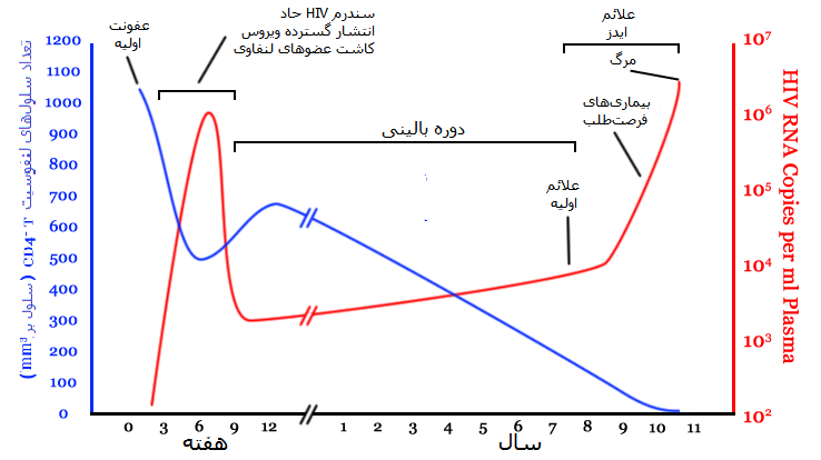 Graph showing HIV copies and CD4 counts in a human over the course of a treatment-naive HIV infection